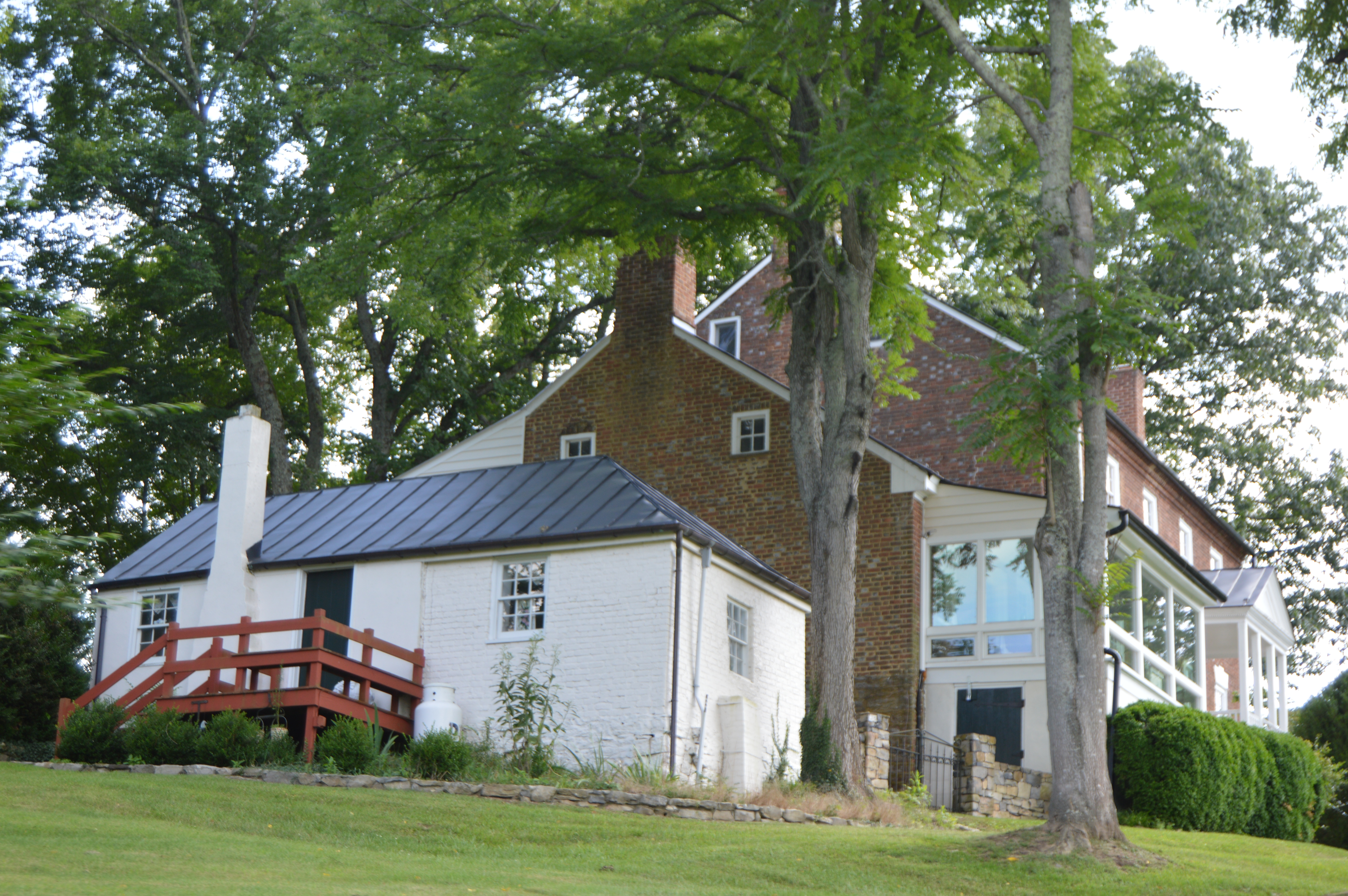 Northeastern end and front of the Willson House, located on Wee Darnock Way northwest of Lexington in Rockbridge County, Virginia, United States. Built in 1812, it is listed on the National Register of Historic Places.